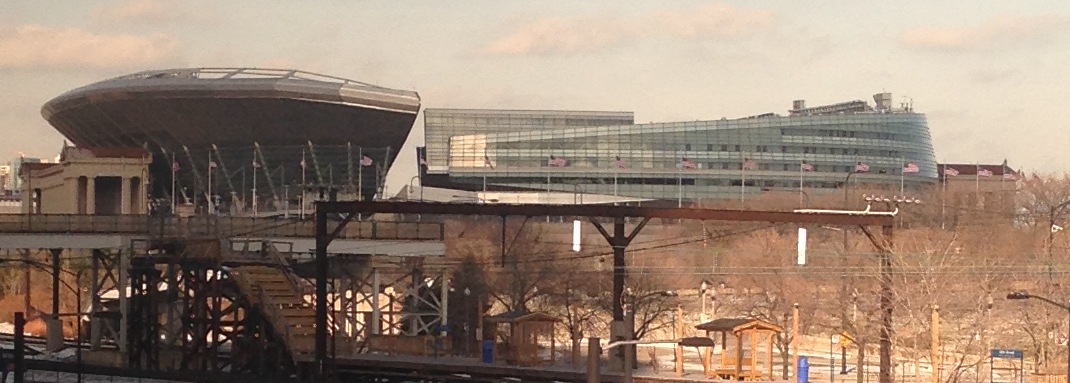 Soldier Field